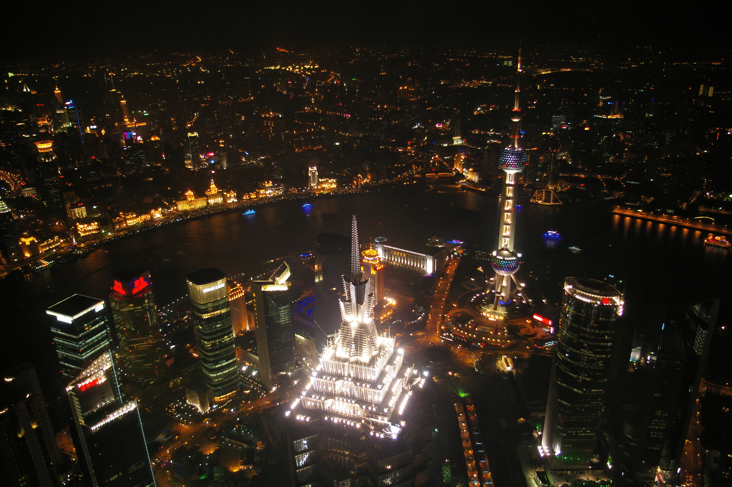 Shanghai by night, view from the Shanghai WFC